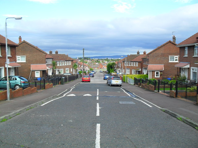 Glenbryn Parade, Belfast In the Upper Ardoyne. Note the strange curve in the layout of the houses left and right - more noticeable from the satellite image.